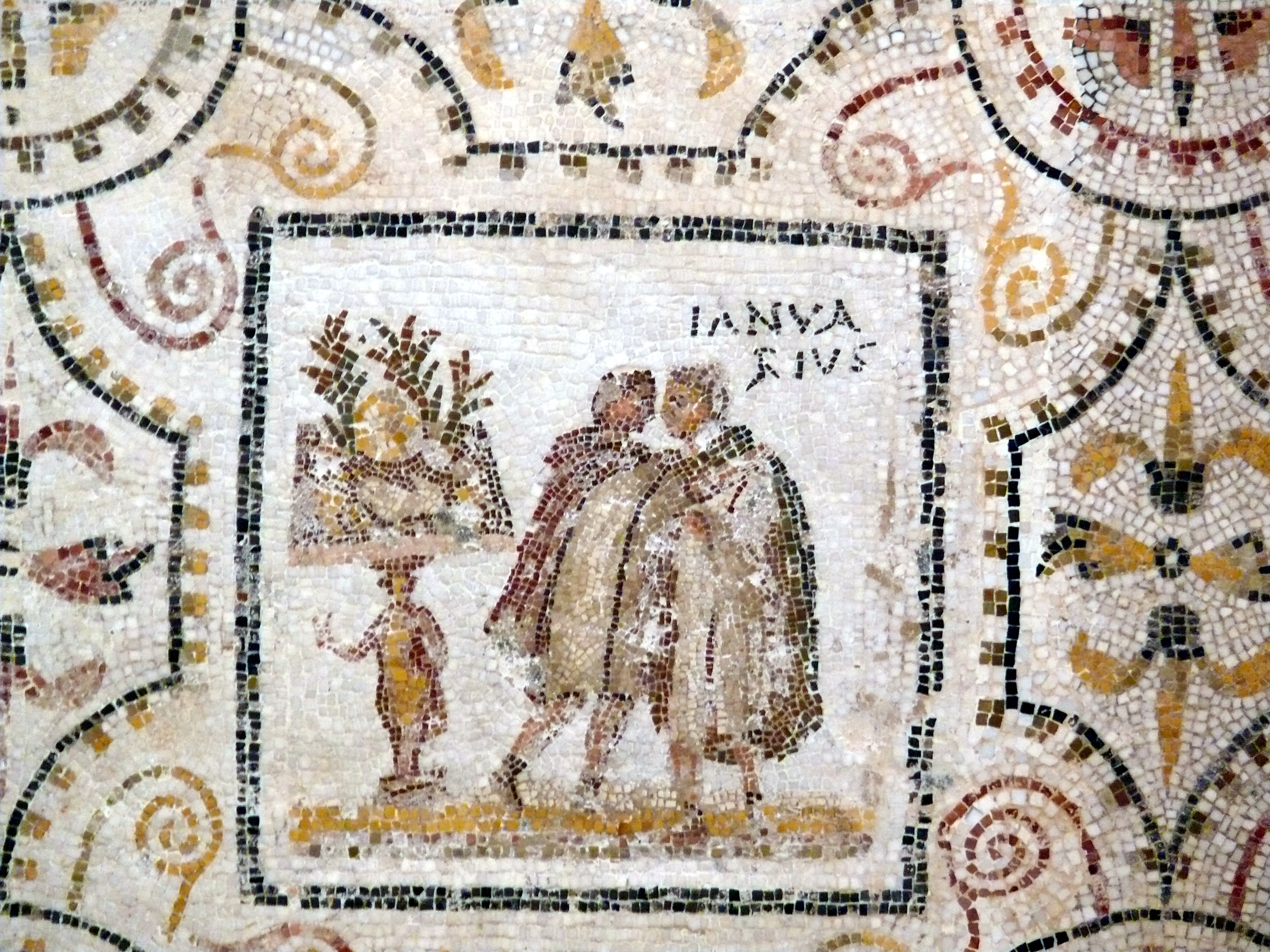 January, fragment of a mosaic with the months of the year, starting with the Roman first month March. First half third century El Jem Archeological Museum of Sousse